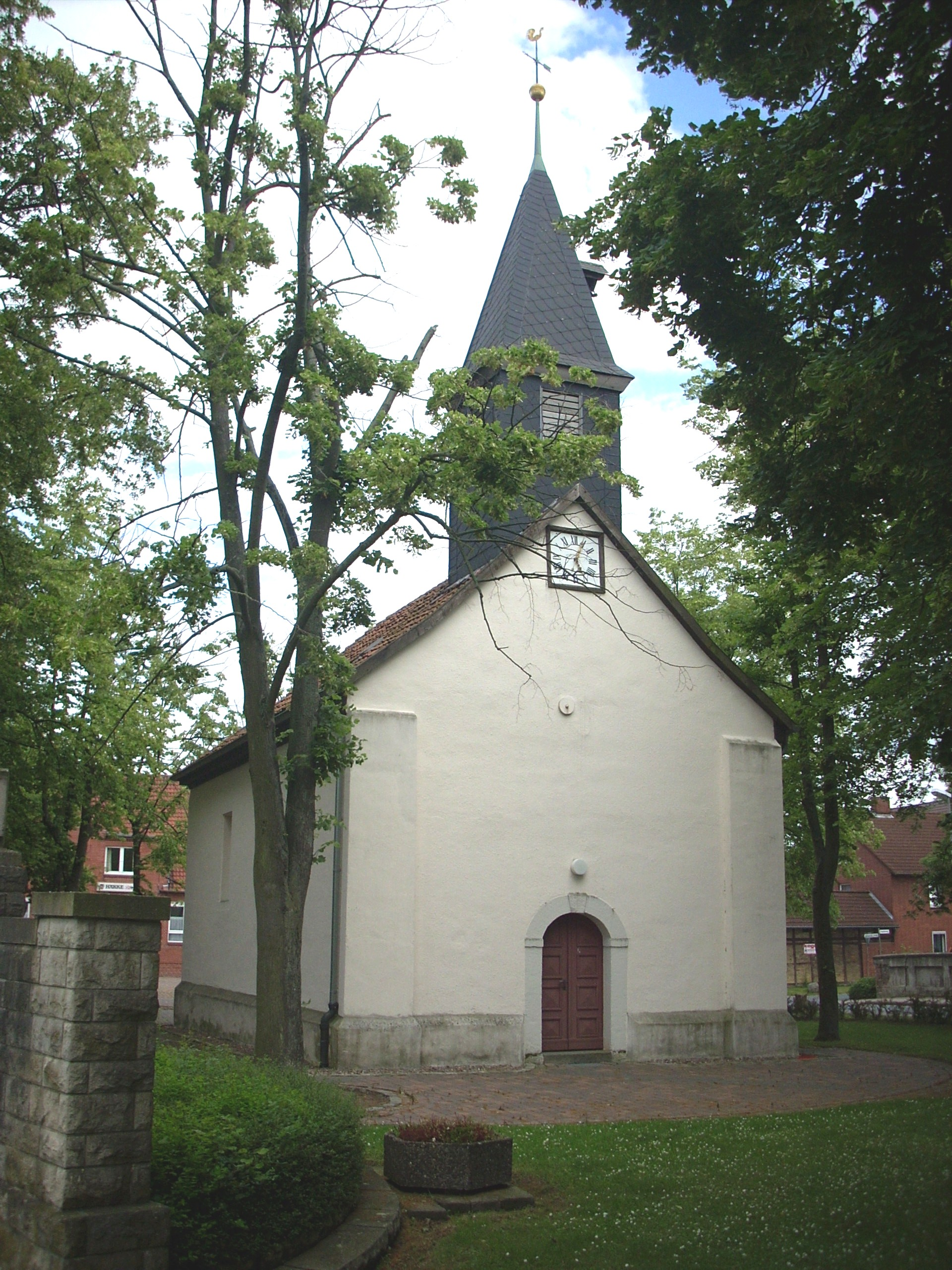 Ev.-luth. Kapelle St. Georg, Evern, Sehnde (Germany)